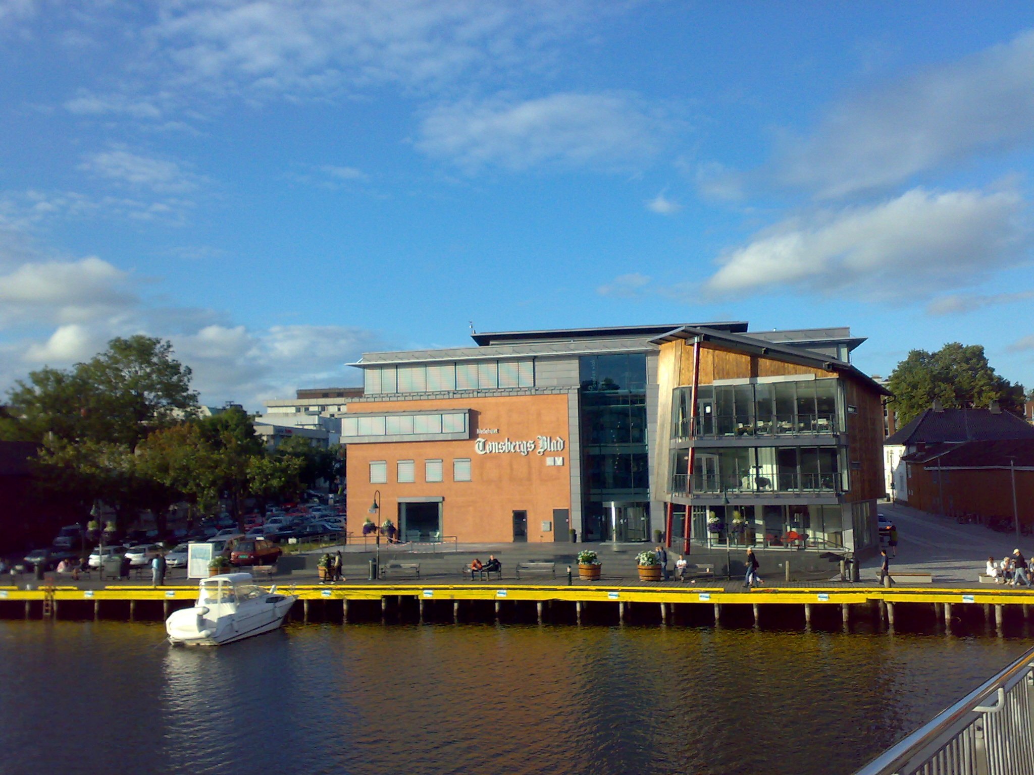 Tönsbergs Blad media house, Tönsberg, Norway